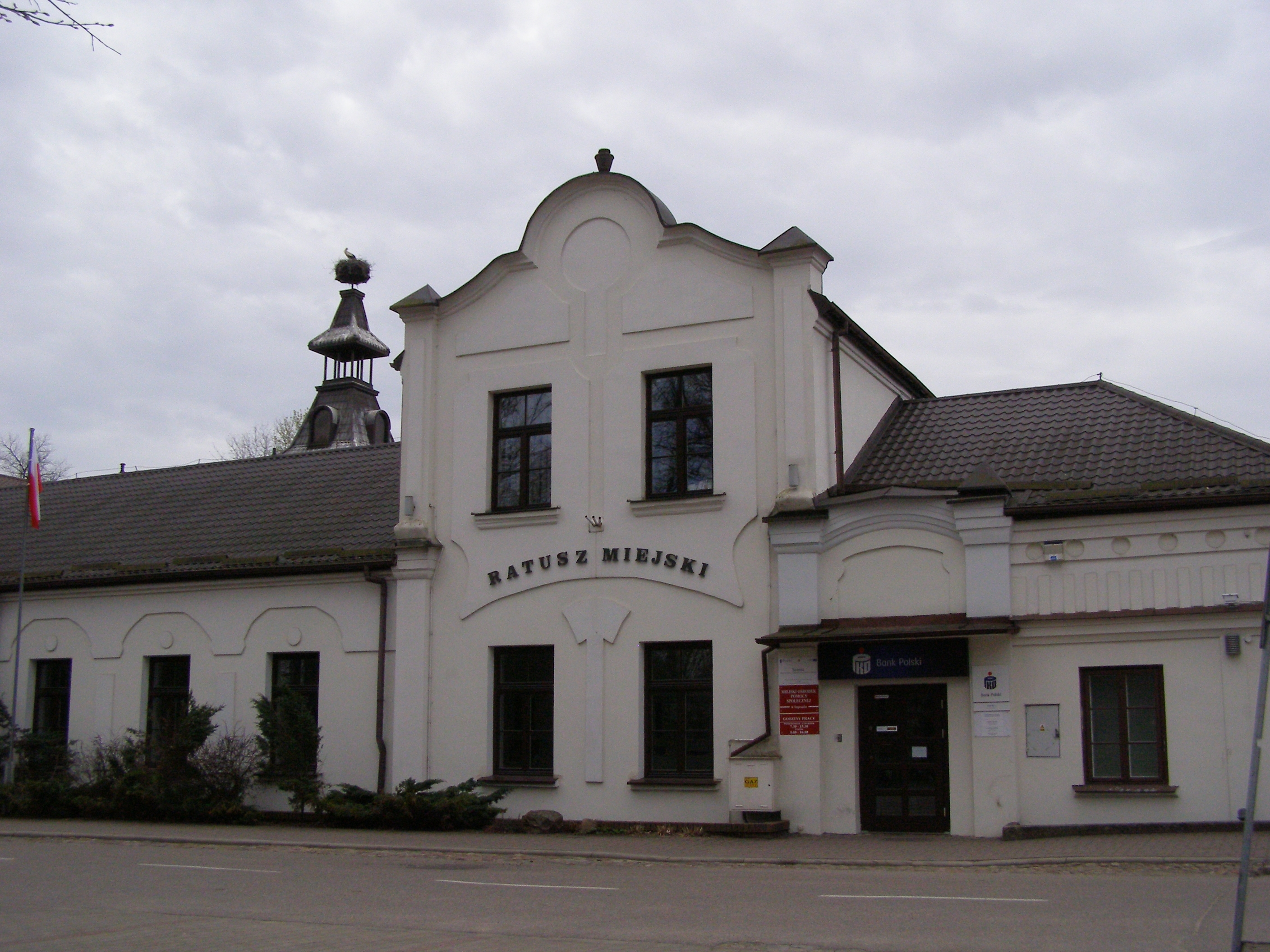 Supraśl - town hall